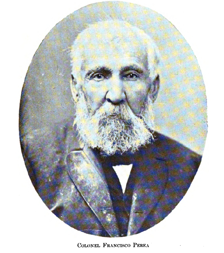 Col. Francisco Perea from Twitchell's "Old Santa Fe" (1914)